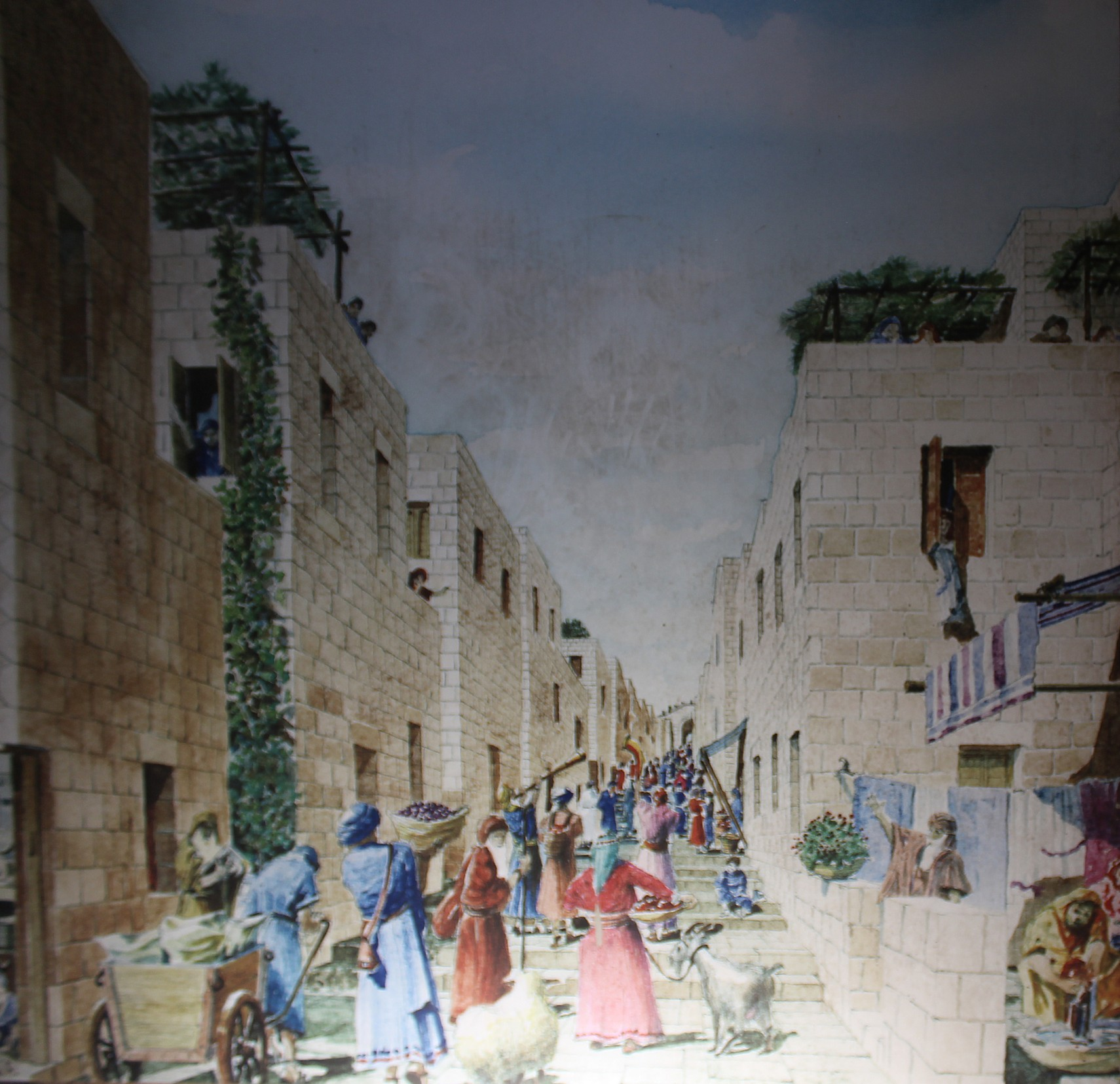 The Western Stepped Pilgrims Road, City of David, Jerusalem This image was taken as part of the Elef Millim project trip to the City of David, in Jerusalem which was held on Friday, 16th August 2013. To view all images uploaded as part of the Elef Millim Project